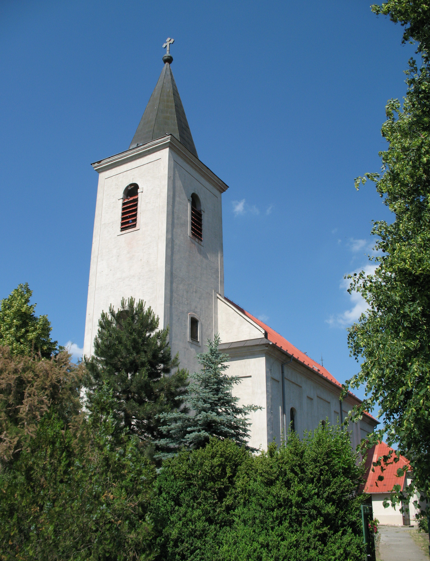 Church of Veľký Cetín